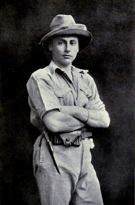 German adventurer and filmmaker Hans Schomburgk. The photograph was presumably taken in 1913 during filming of Weisse Göttin der Wangora (The White Goddess of the Wangora).